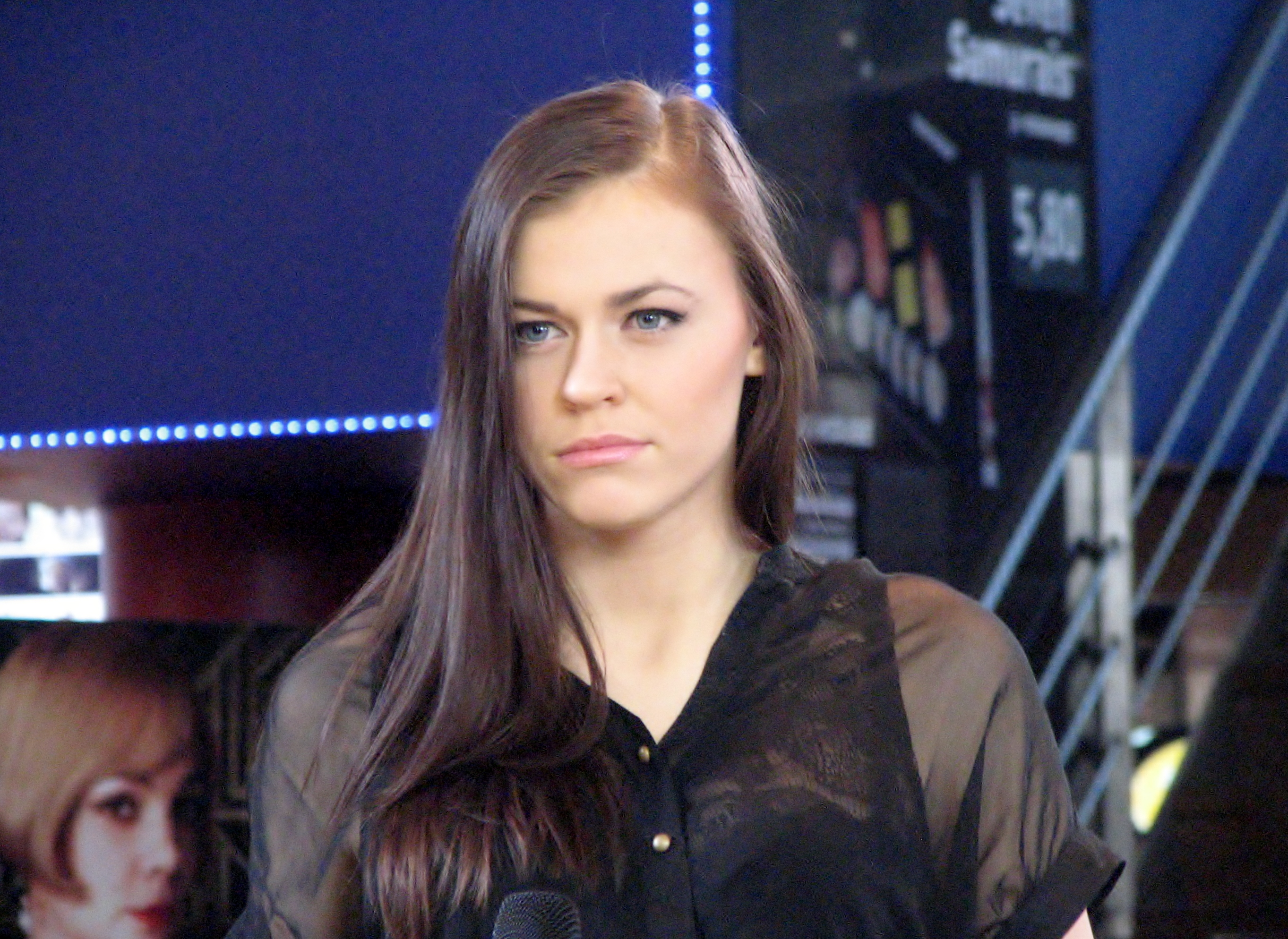 Rosanna Lints during a video recording in Solaris centre, Tallinn